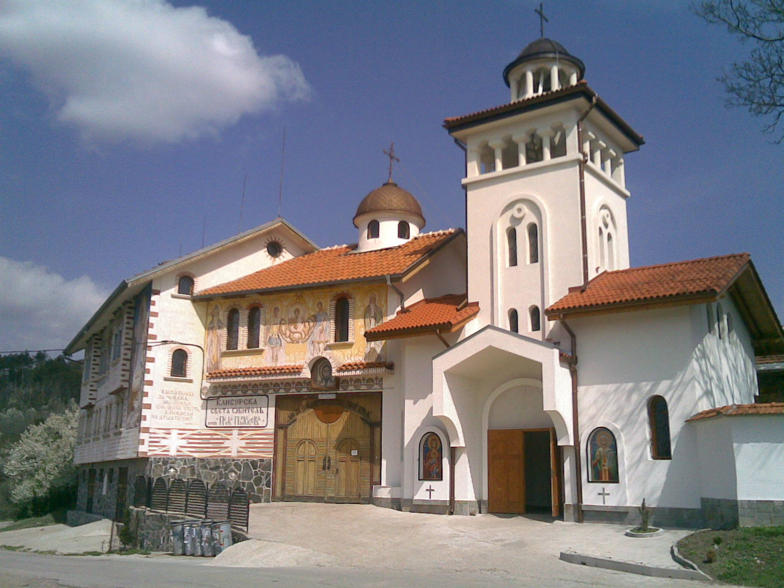 Klisura Monastery in Sofia Eparchy, Bulgaria